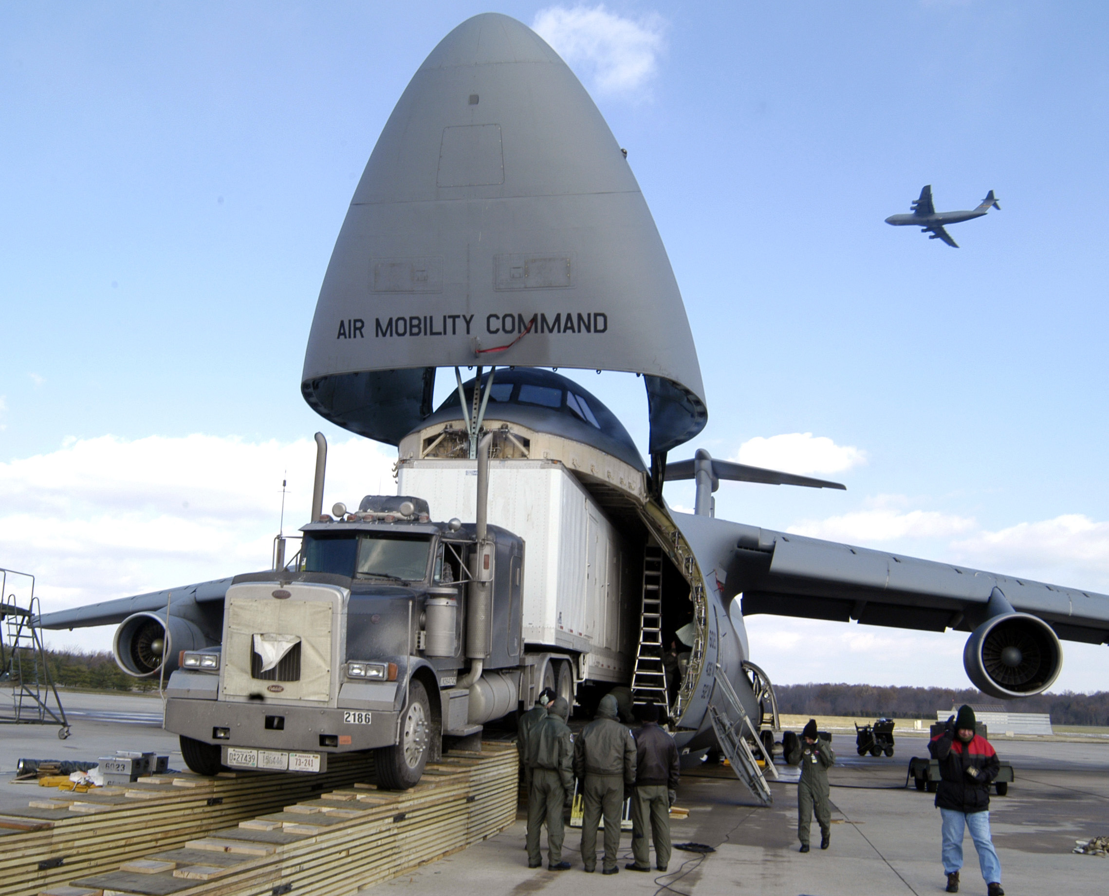 Airmen load the Aviation Combined Arms Tactical Trainer onto a C-5 Galaxy with the help of Army contractors. The trainer is an Army helicopter training simulator. Airmen from the 436th Aerial Port Squadron built a ramp specially designed to load the trainer on the transport. Before the ramp's creation, the only way to move the trainer was by ship, which took six to eight weeks to get to Soldiers in the field. (U.S. Air Force photo by Staff Sgt. James Wilkinson)